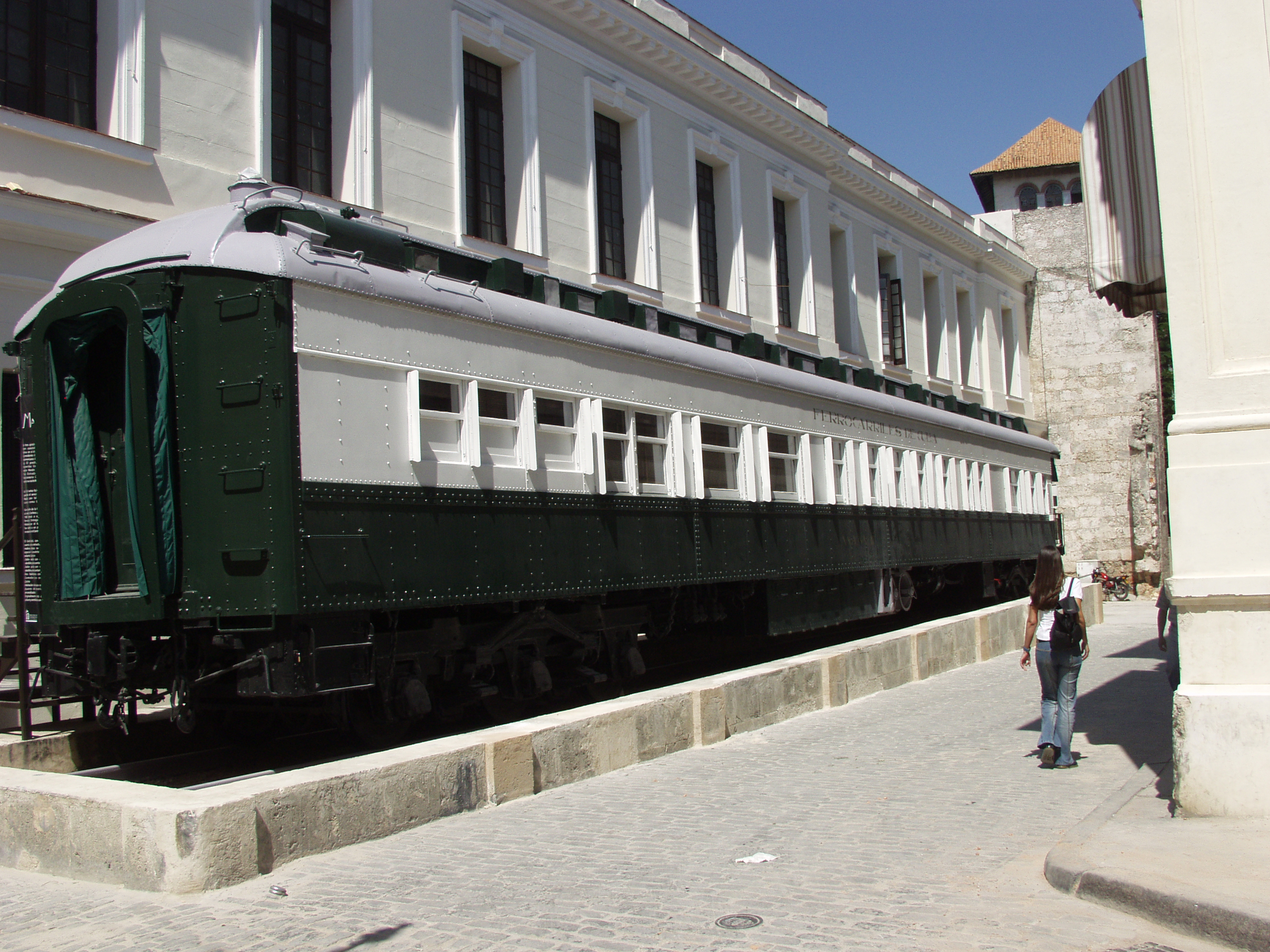 president railway car at Havana, Cuba